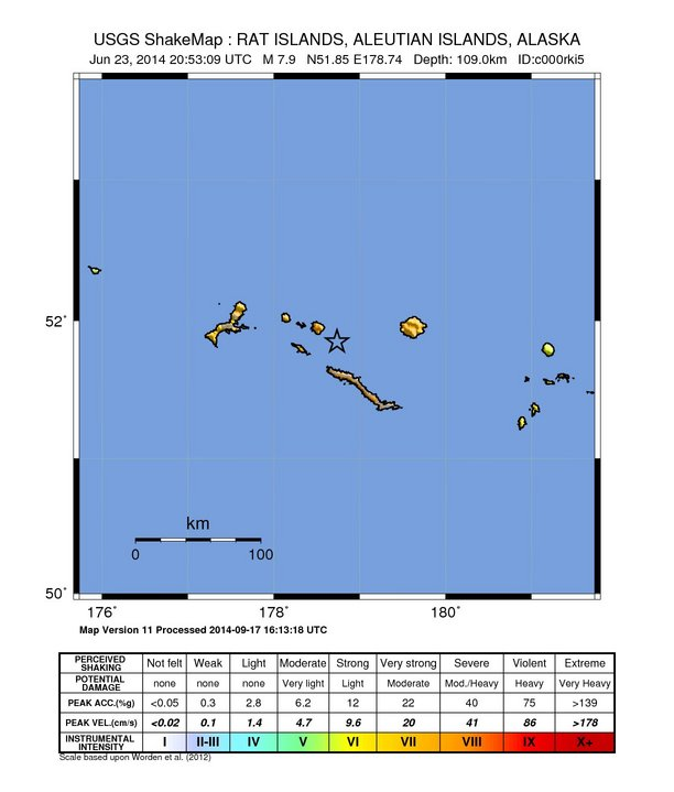 M 7.9 - 19km SE of Little Sitkin Island, Alaska - intensity